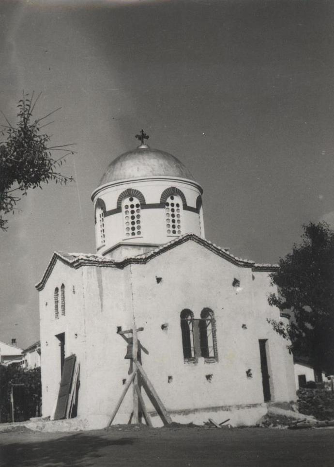 Agia Marina Orthodox Church in Sappes.